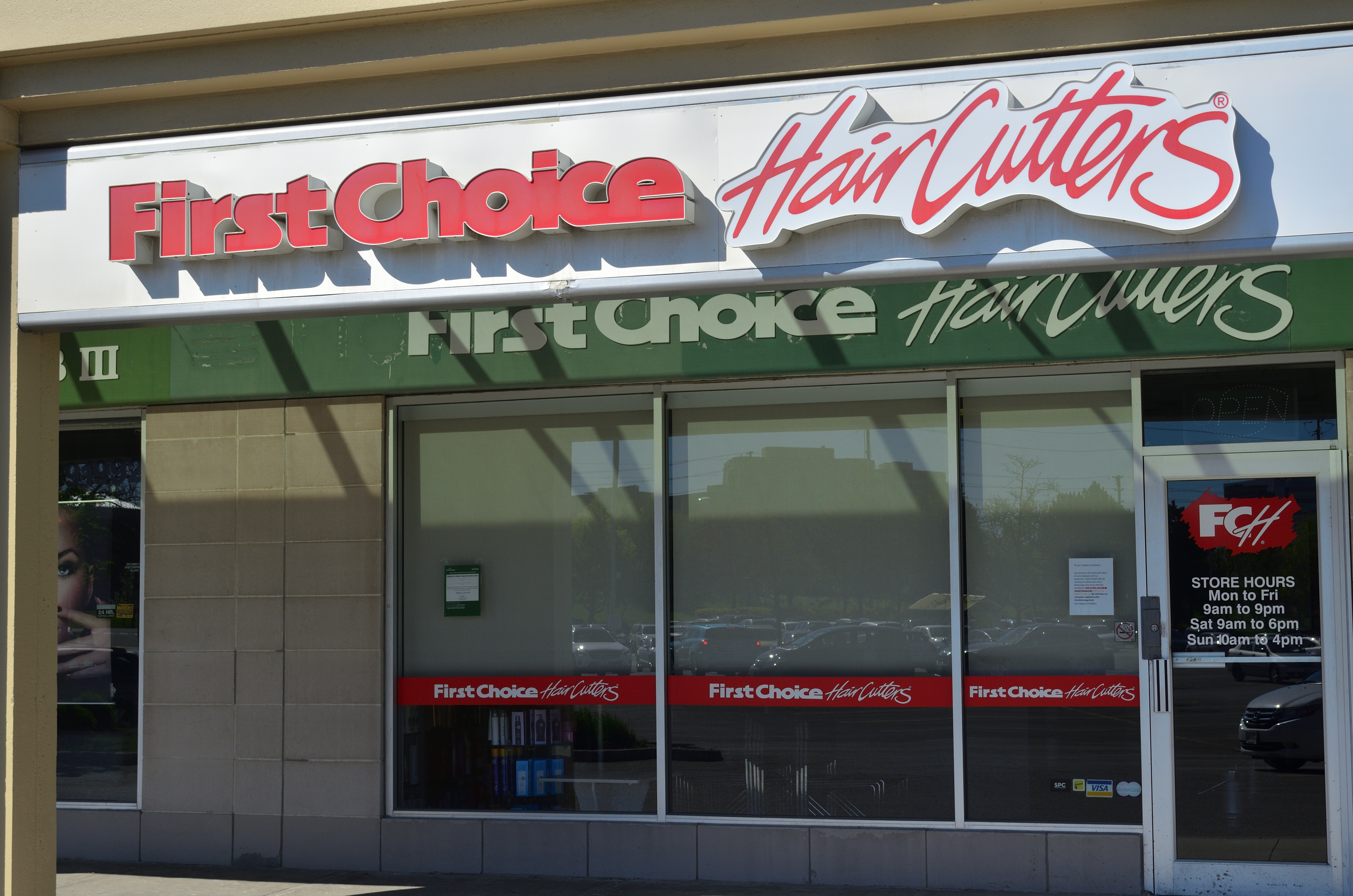 First Choice Haircutters at Markham Town Square